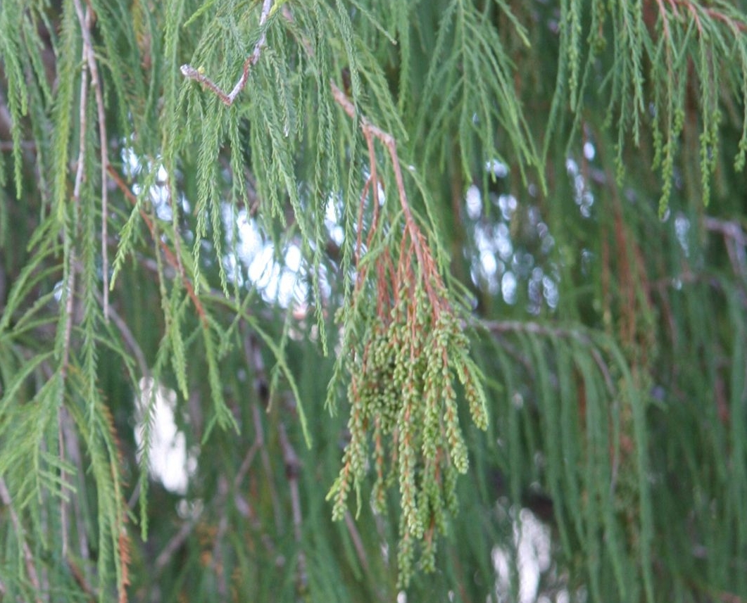 Morphology of taxodium